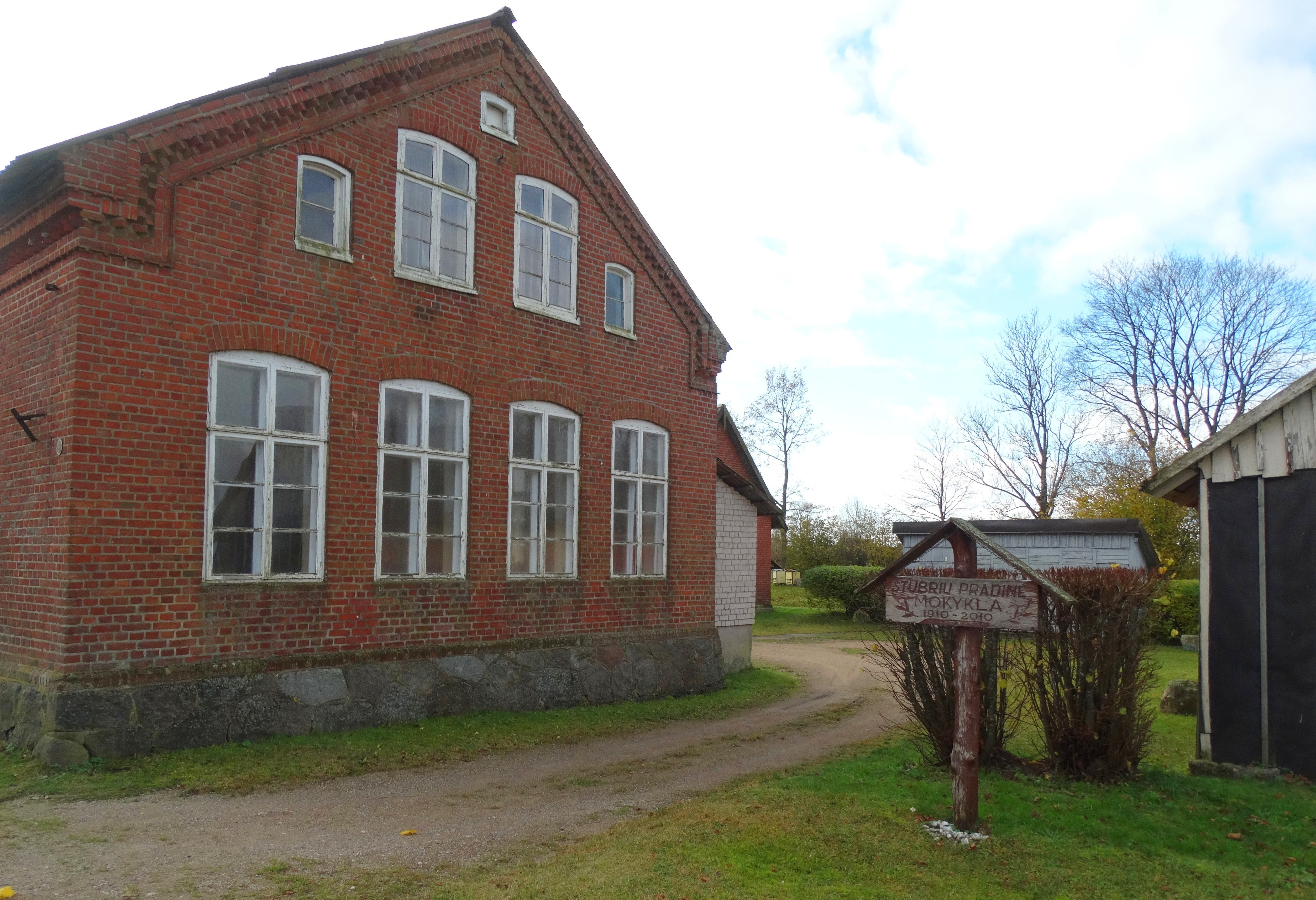 Former school graduates, Stubriai, Šilutė district, Lithuania